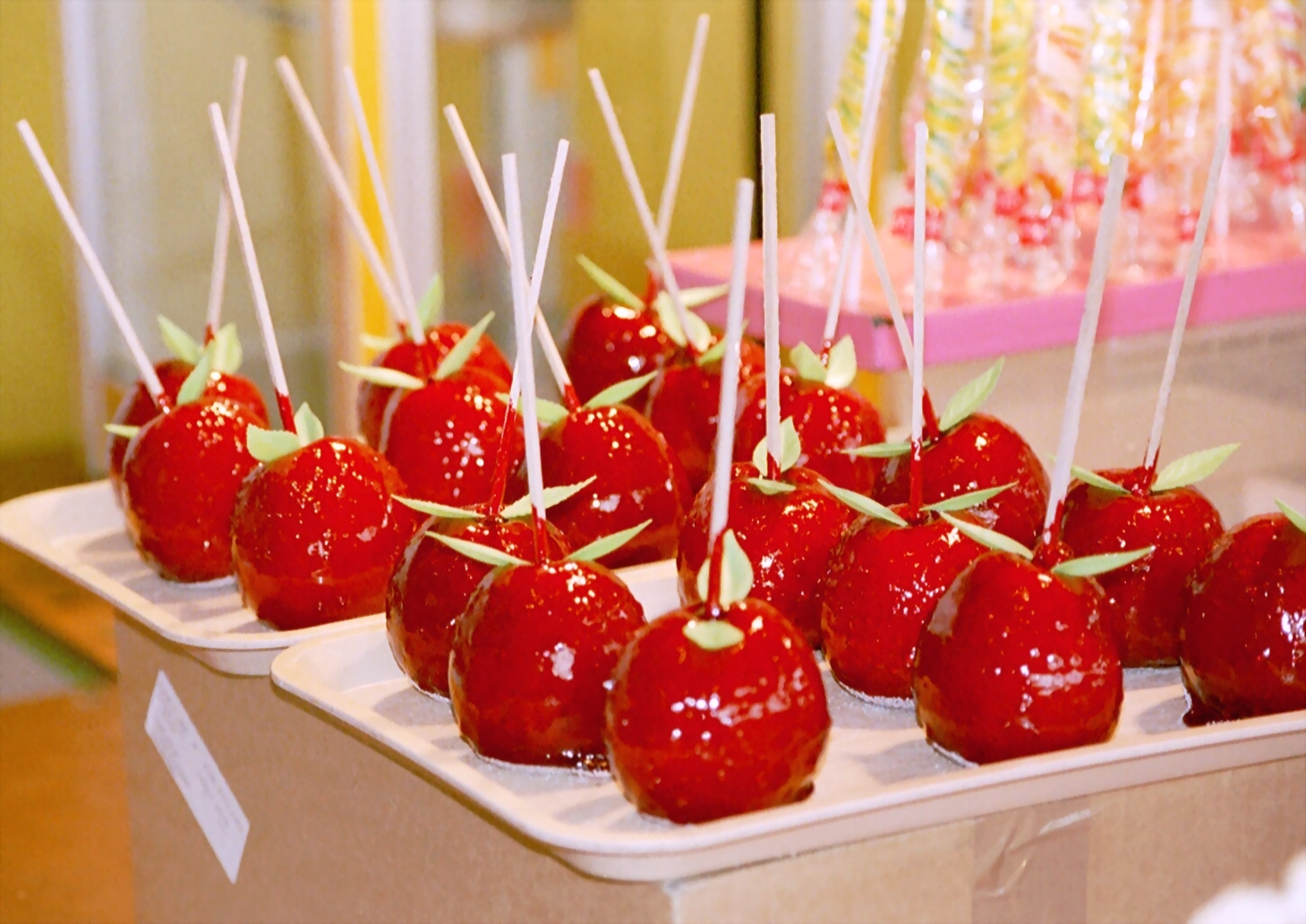 Candy apples on display. mondial de la maquette 2002 (2002 World Modelling Fair), Porte de Versailles, Paris, France.